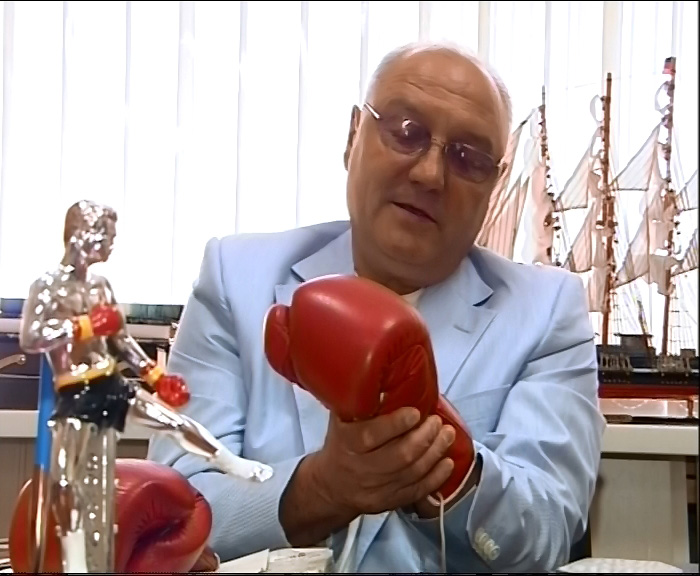 Бахмутов Сергей Иванович - заслуженный тренер Украины